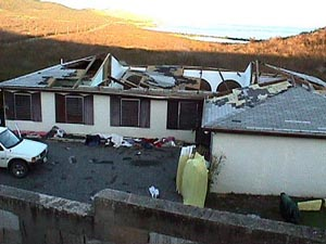 St. Croix, VI, November 23, 1999 -- This home on the side of Mt. Fancy suffered severe damage from Hurricane Lenny; high winds sheared off nearly the entire roof. FEMA News Photo